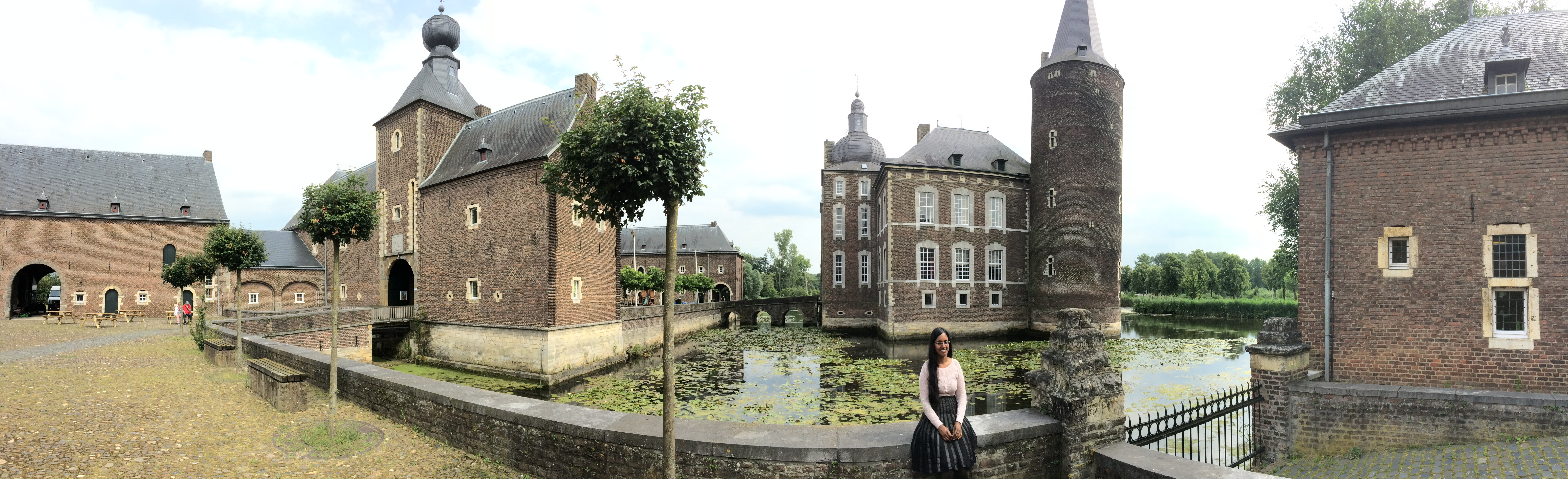 Hoensbroek Castle in 2016